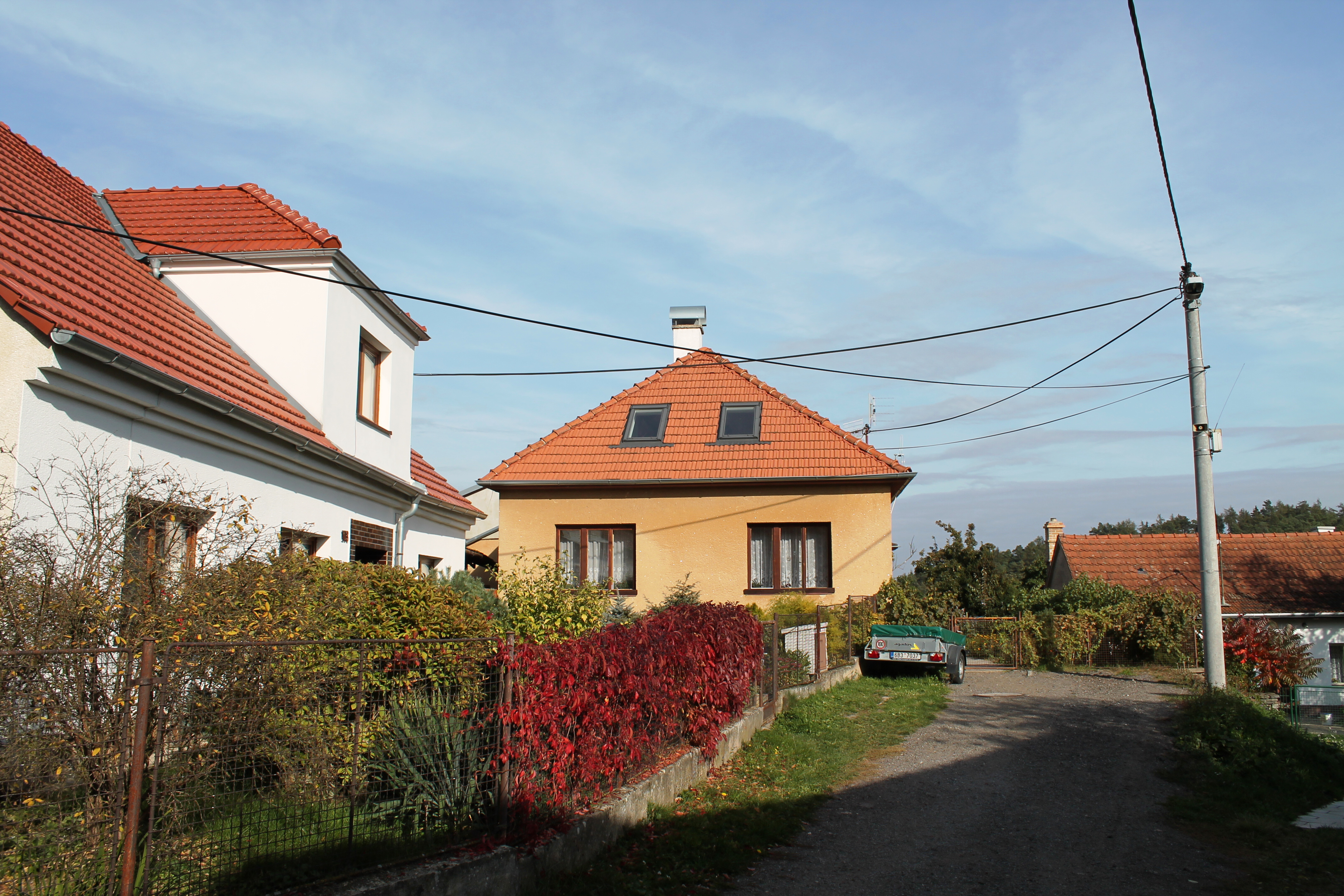 Place of former Deblín castle, Deblín, Brno-Country District, Czech Republic - Google Maps - Google Earth